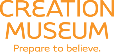 Creation Museum logo